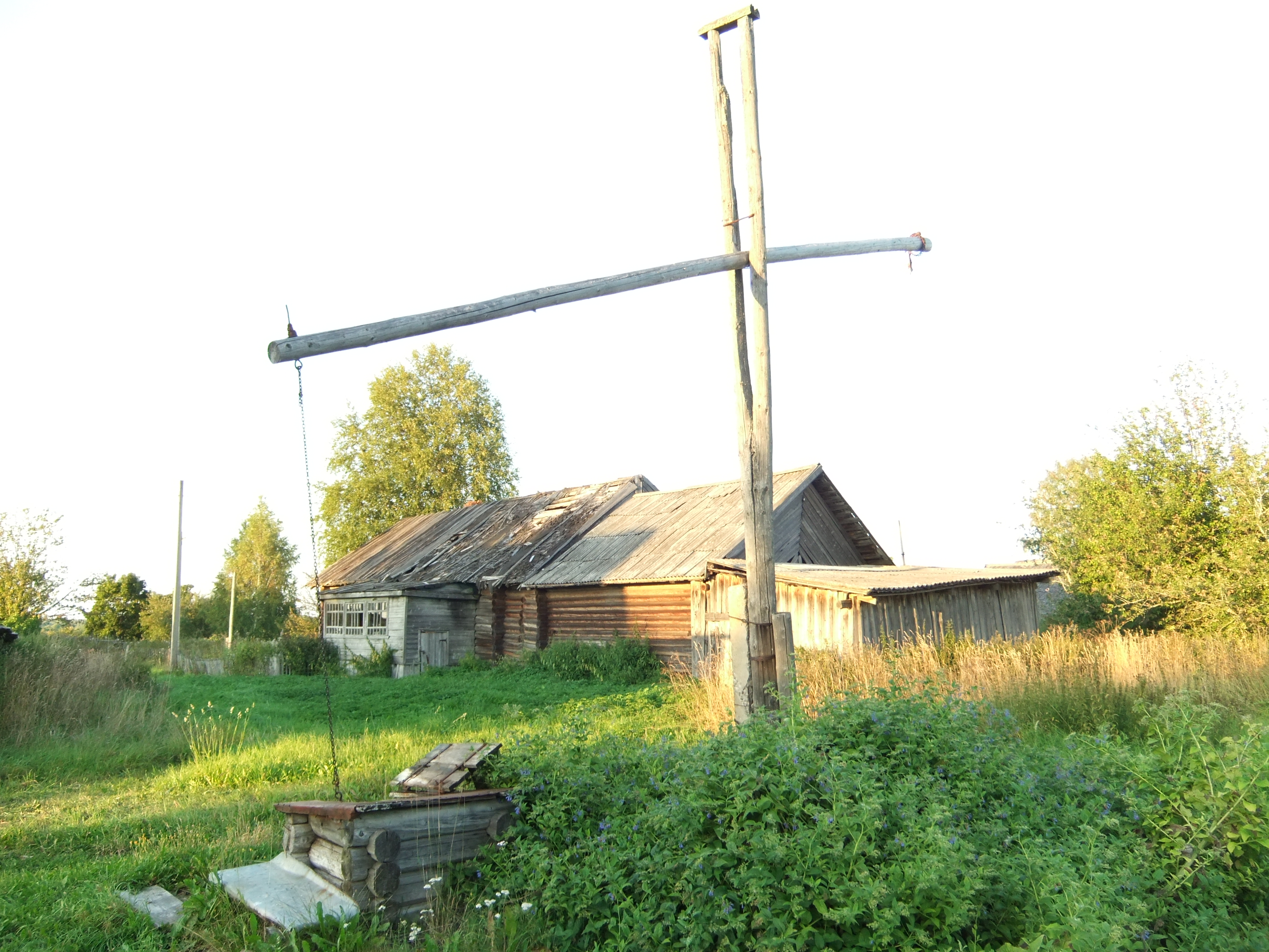 The village well in Menkovo village, Yaroslavl Oblast